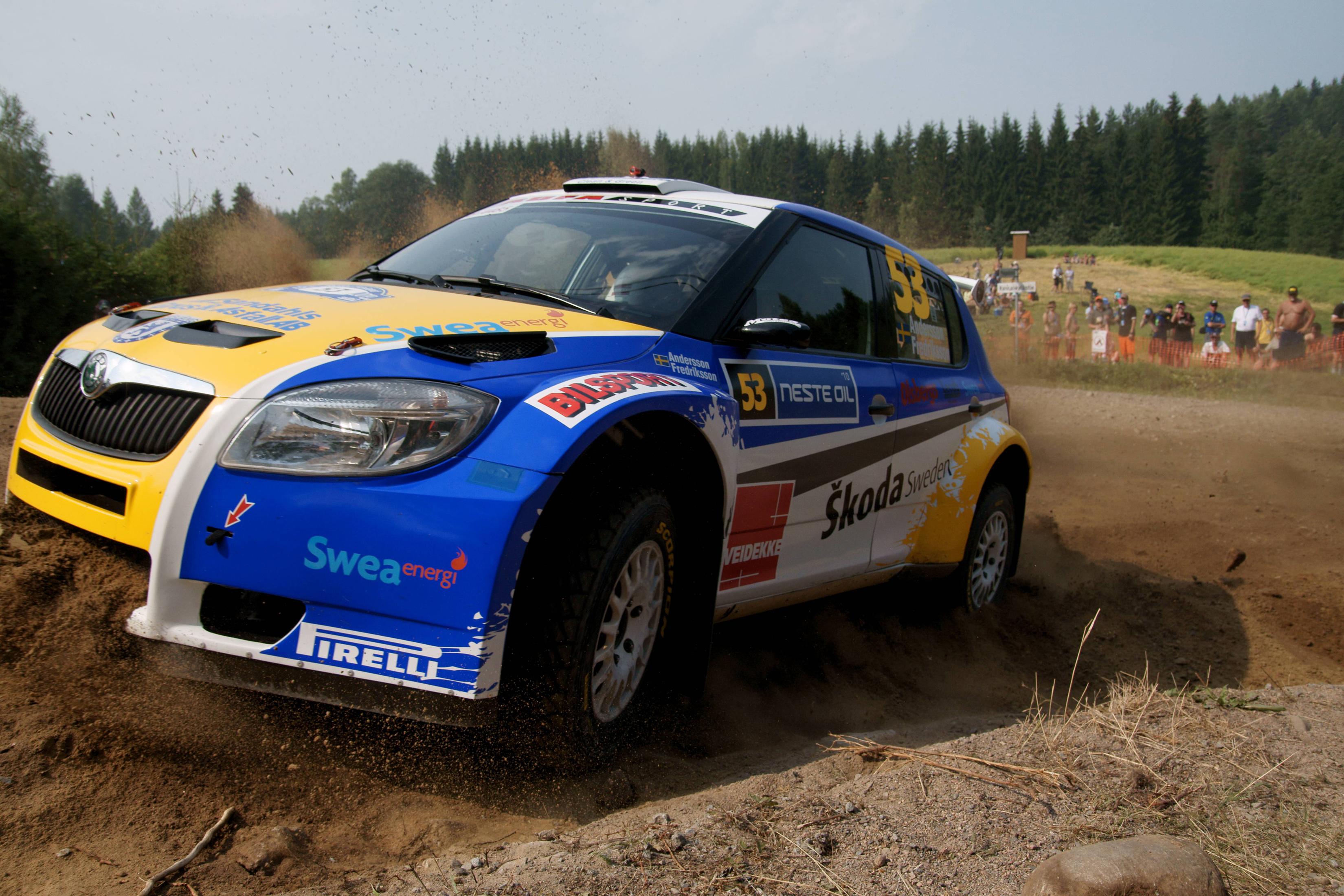 Per Gunnar Andersson driving at Rannakylä shakedown in Muurame.